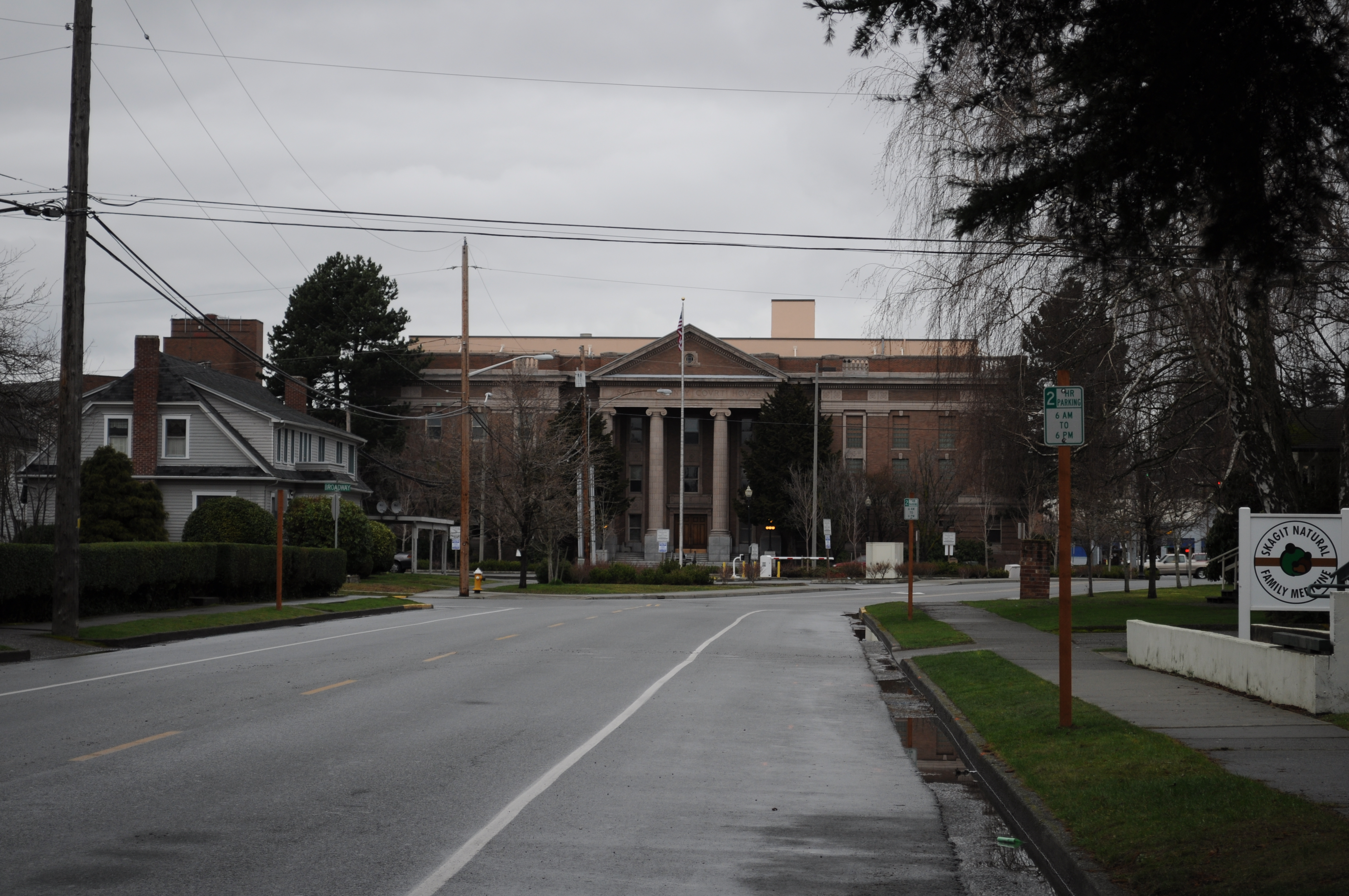 Skagit County Courthouse, Mount Vernon, Washington.